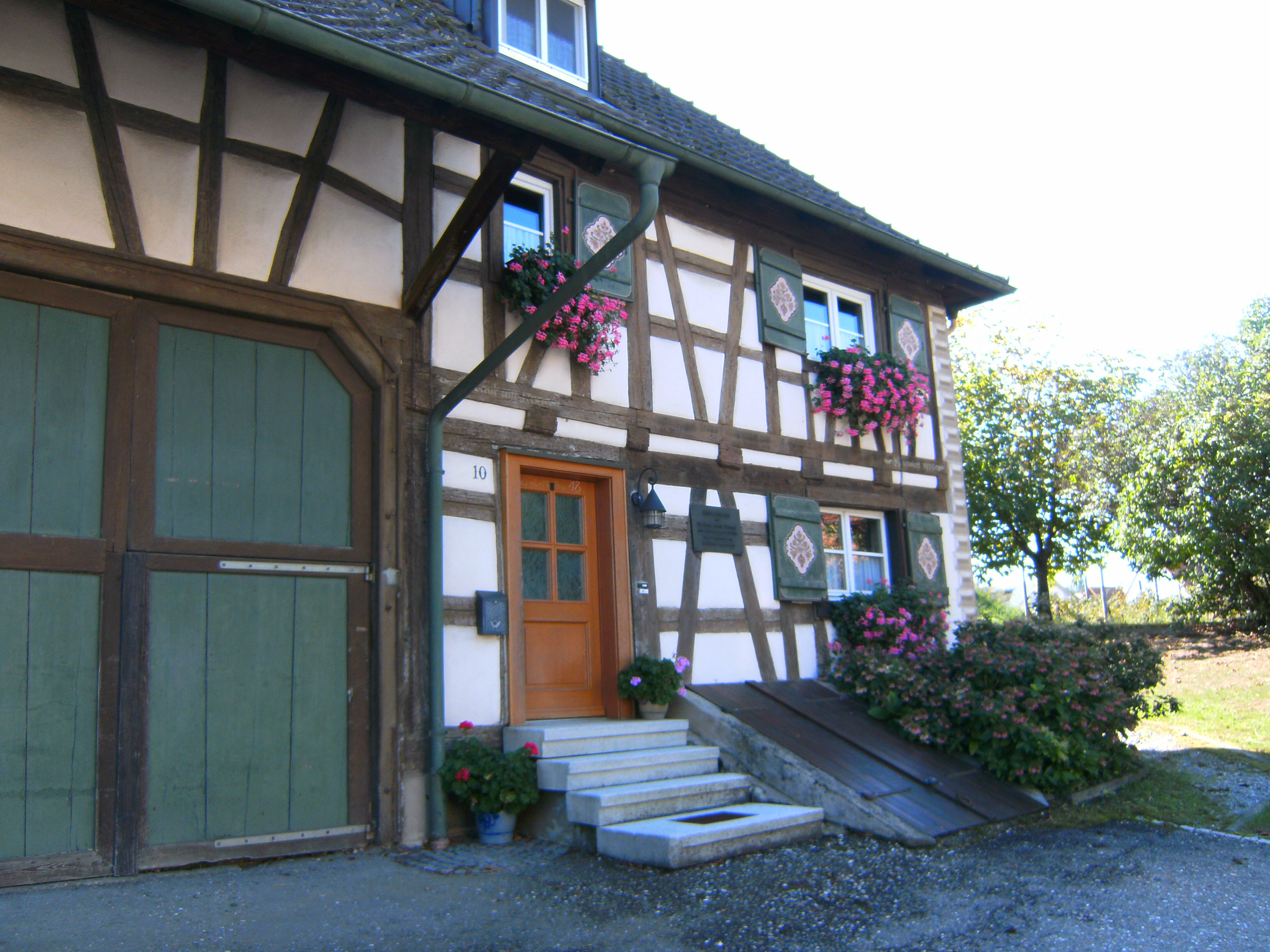 Moos-Iznang, local part of Moos (am Bodensee), Höristraße 10: house where Franz Anton Mesmer was born (now private property).